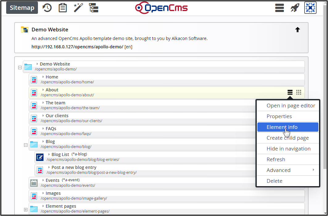 OpenCms 10: Editing the structure of a website in the sitemap editor.